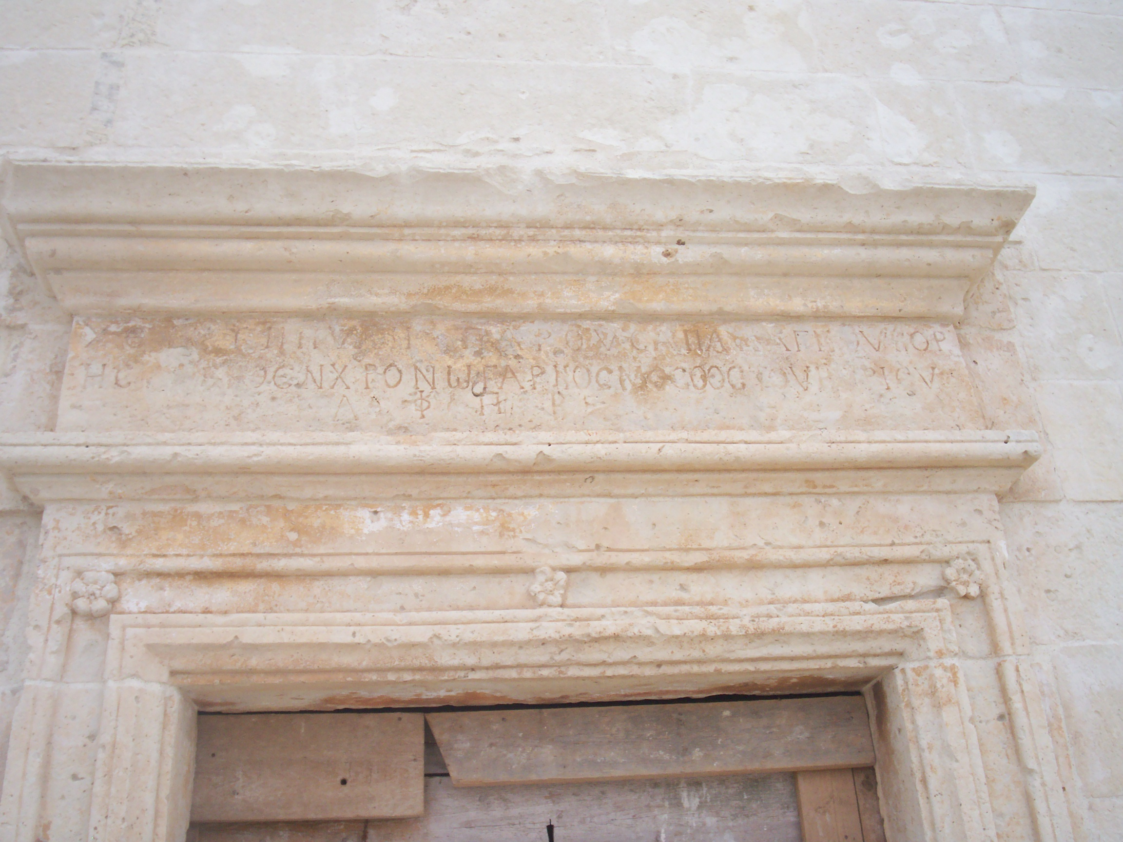 San Lorenzo's Church in Apigliano, in the outlying areas of Martano, province of Lecce - Apulia (Italy)